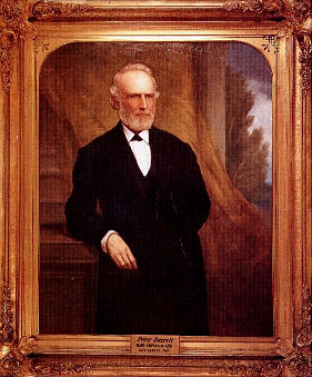 First California Governor Peter Burnett